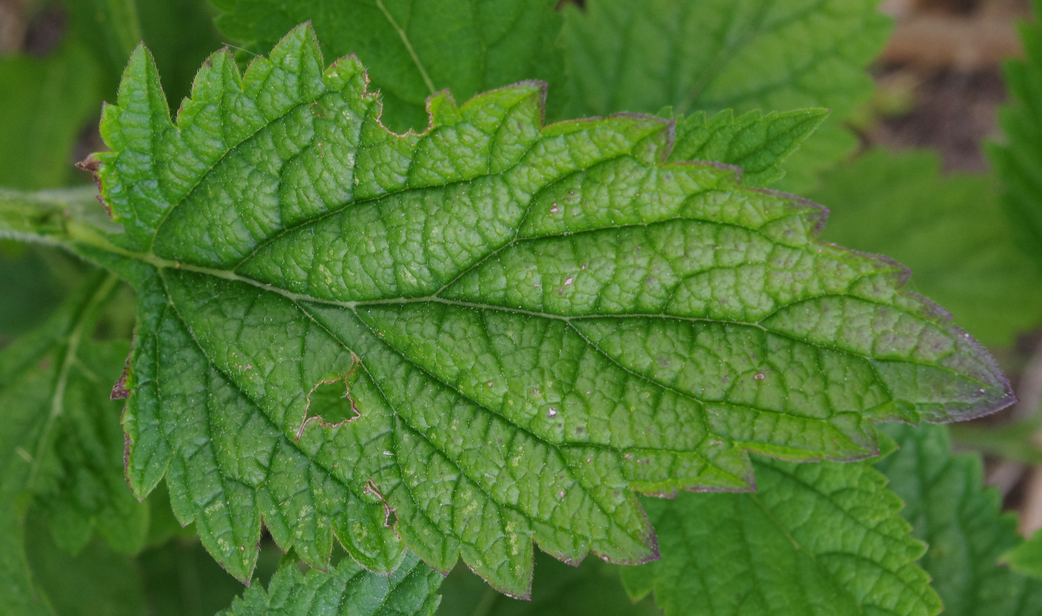 Verbena urticifolia at the ÖBG Bayreuth